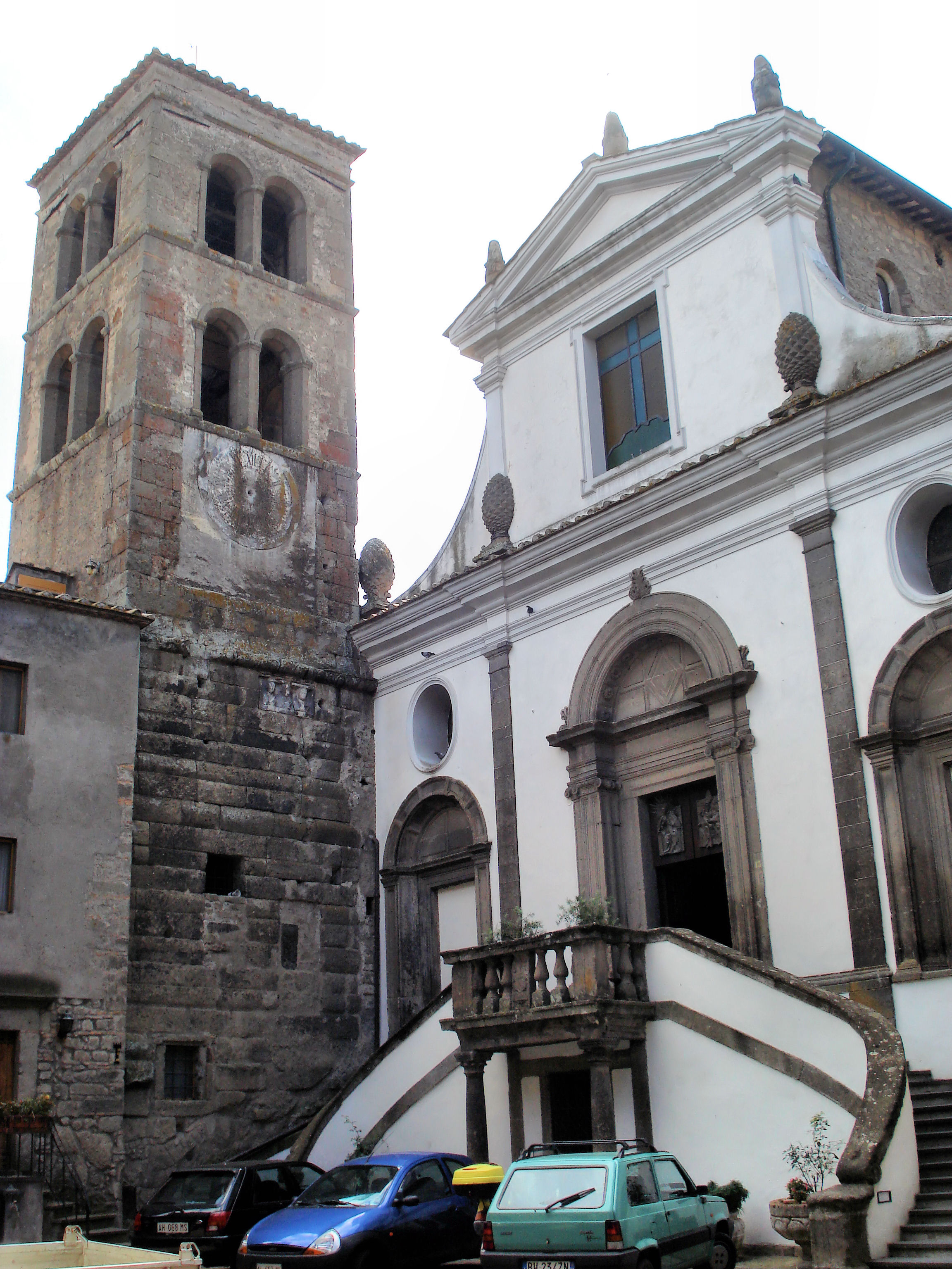 Church of Santa Maria Assunta, Bomarzo, Italy